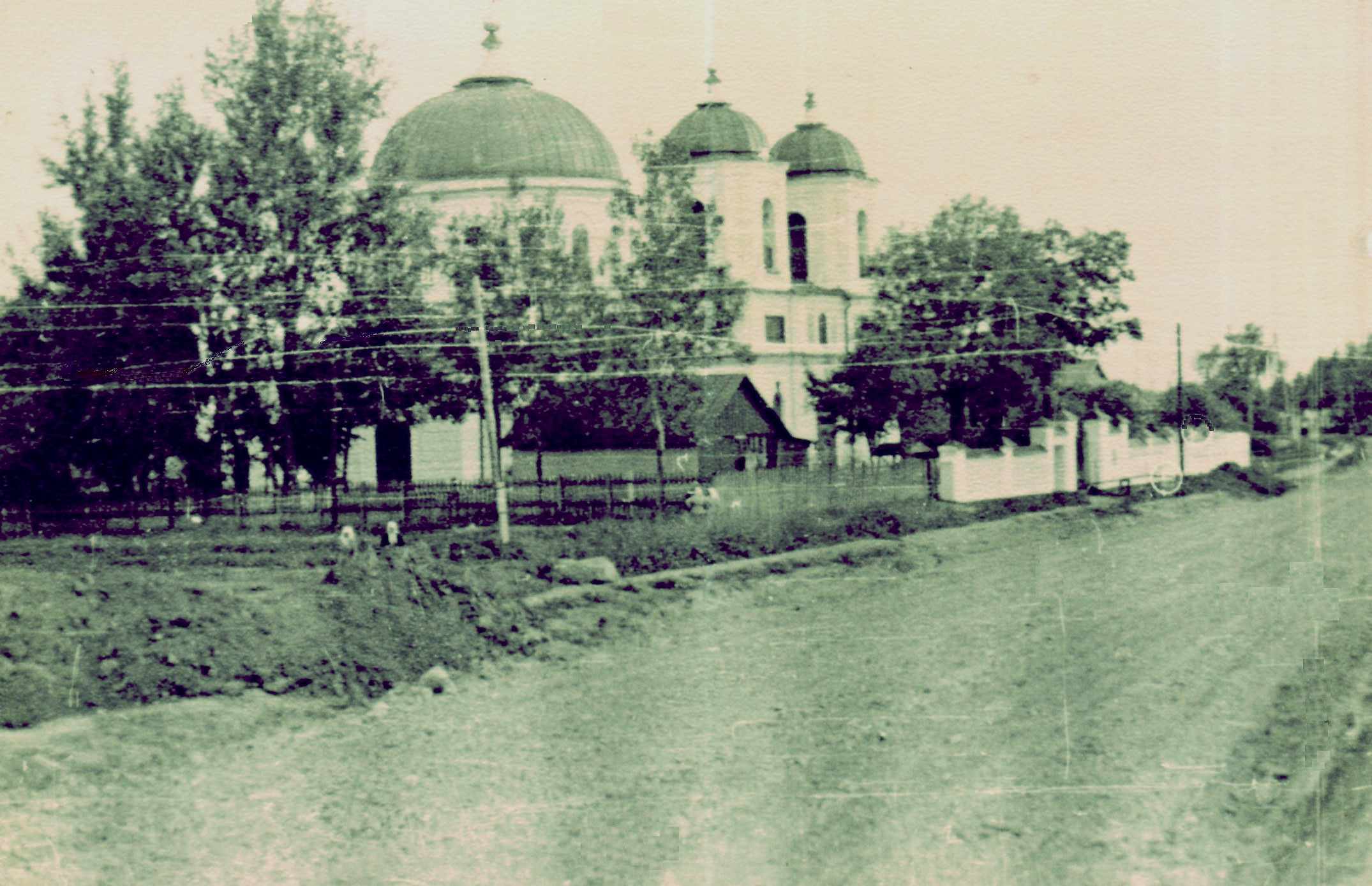 Christmas and Bogorodyts'ka Church, Great Budyscha, Dykanka district, Poltava region, Ukraine